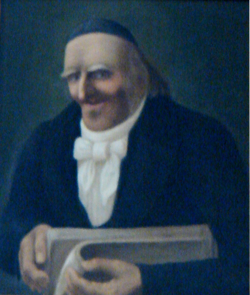 Gabriel Marklin (1777-1857), Oil painting.